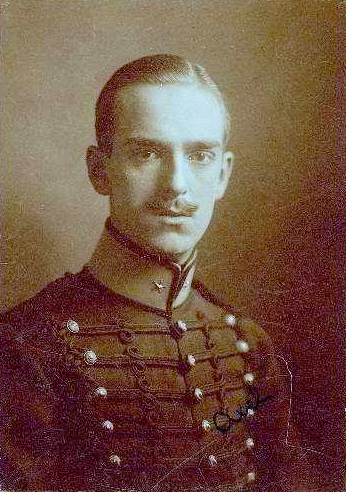 Axel Oscar Rappe